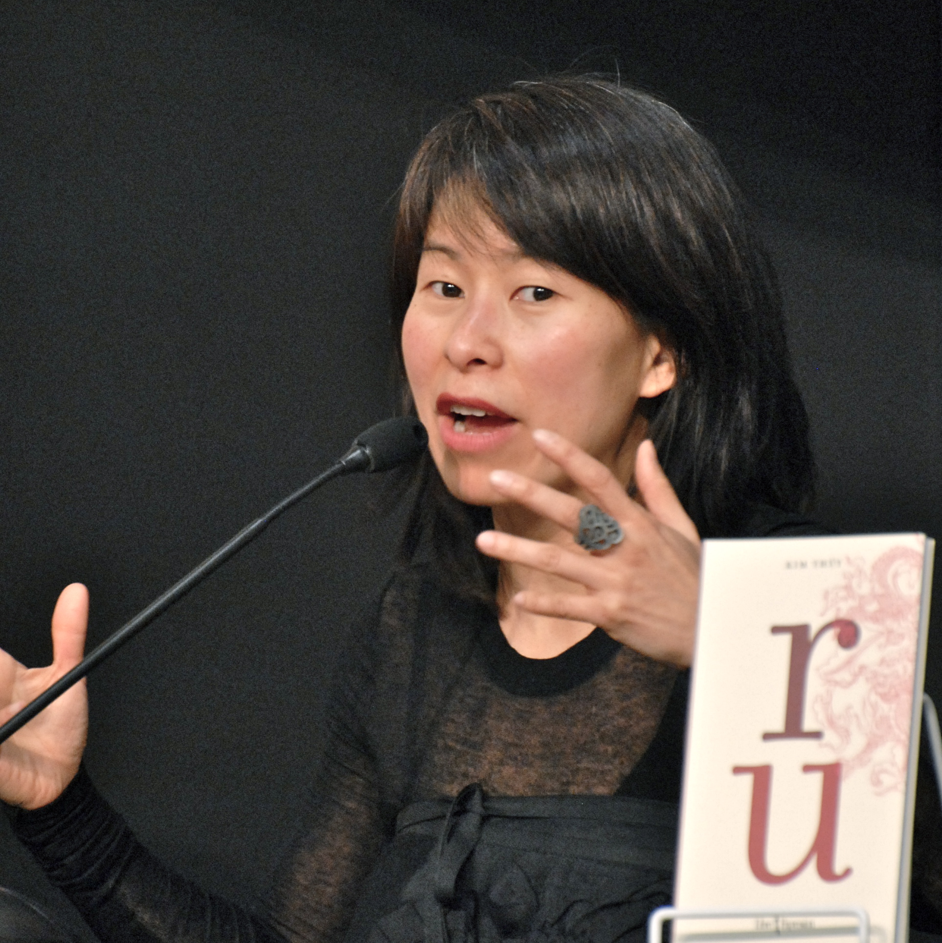 Author Kim Thúy, at the Salon international du livre de Québec 2011